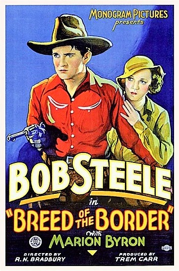 Poster del film Breed of the Border